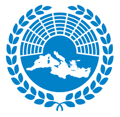 PAM logo